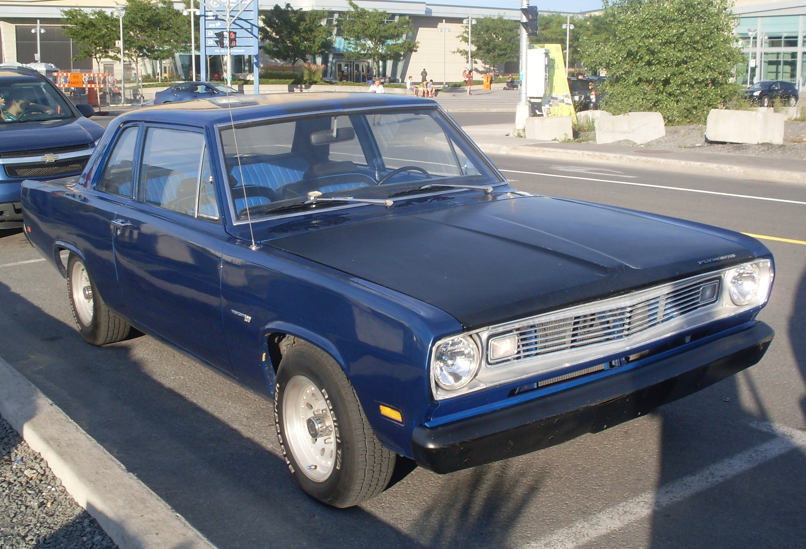 1969 Plymouth Valiant photographed in Laval, Quebec, Canada.